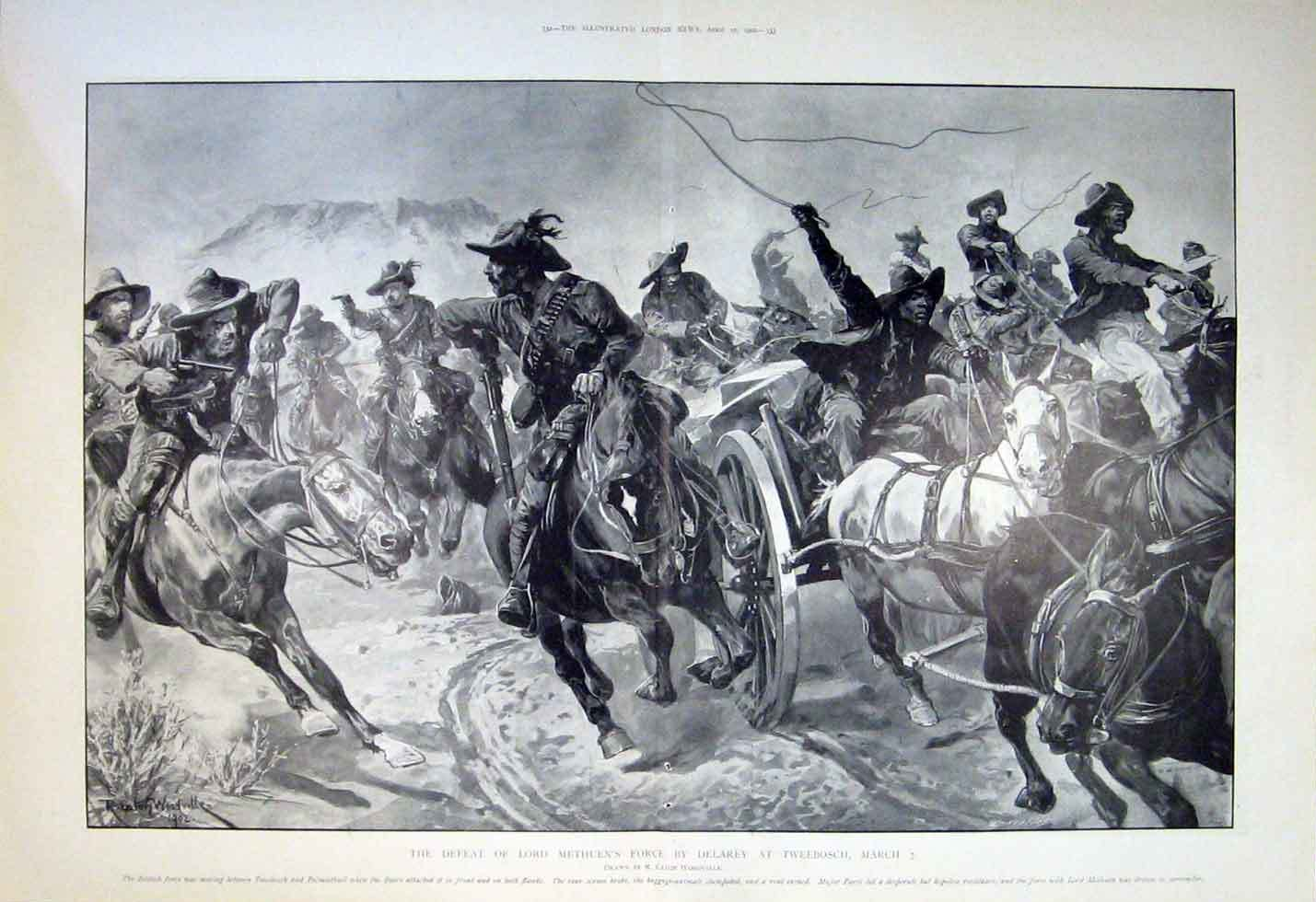 Victorian poster depicting the Defeat of Lord Methuen's Force by De La Rey at Tweebosch, March 7